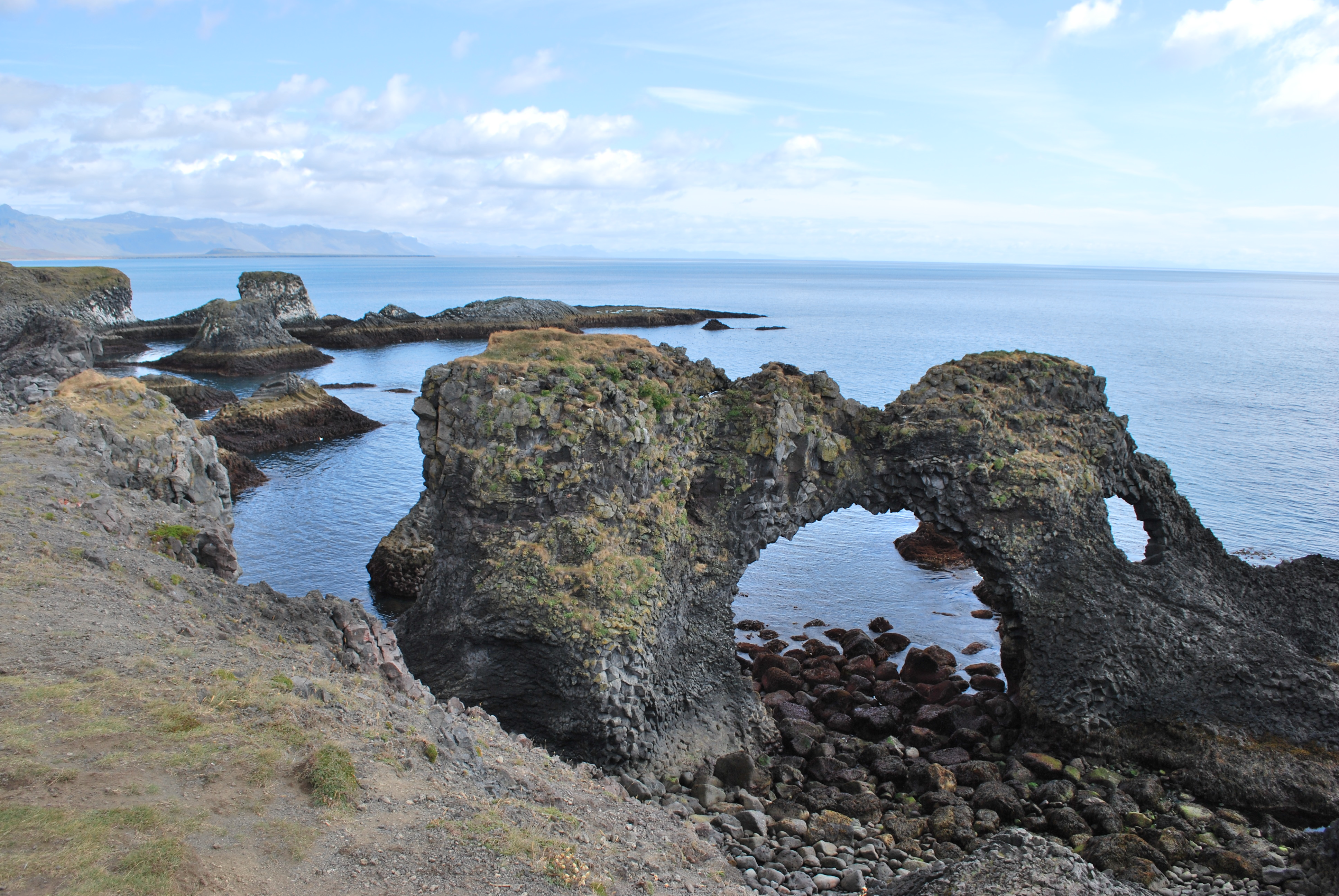 Rocky gate. Arnarstapi village, Iceland